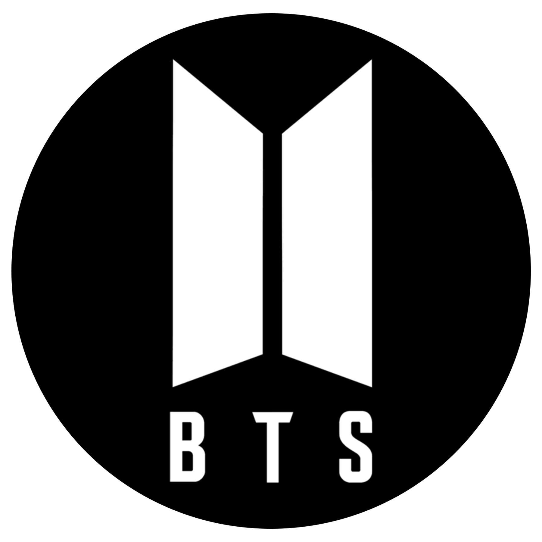 BTS logo since 2017